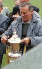 Rovers stars of the 1950's gather at Twerton Park on August 13th 1988 for Jackie Pitt's testimonial match, Bristol Rovers taking on FA cup holders Wimbledon. Pitt played for Rovers between 1946 and 1958 and after retiring from playing became the club's groundsman for many years at both Eastville and Twerton Park. He sadly died in August 2004. This photo was taken before the game, wih all time Rovers legend Geoff Bradford getting his hands on the FA cup. The game itself ended in a 1-1 draw with both goals coming in the first half, Peter Cawley scored for Wimbledon, Devon White equalised for Rovers.